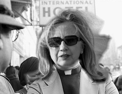 Bad example of frame grab from online news website of Reverend Jim Jones with head of Hilary Clinton photoshopped over it. Original photo by Nancy Wong of Jones in 1977 that was special to the San Francisco Chronicle in 1999.